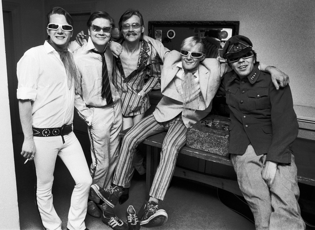 Finnish rock band Sleepy Sleepers in Orimattila 1978.